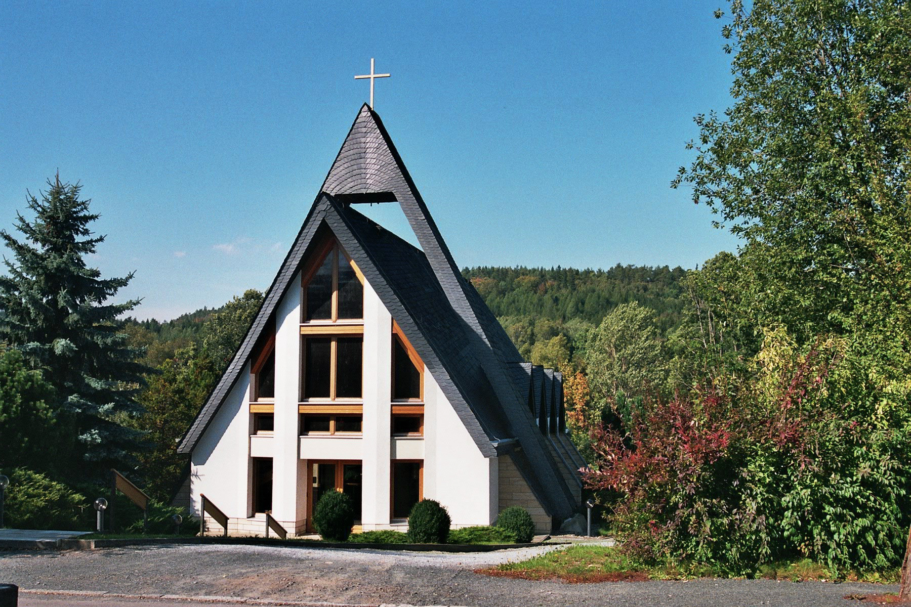 This image shows the catholic church in Berggießhübel in Saxony, Germany.